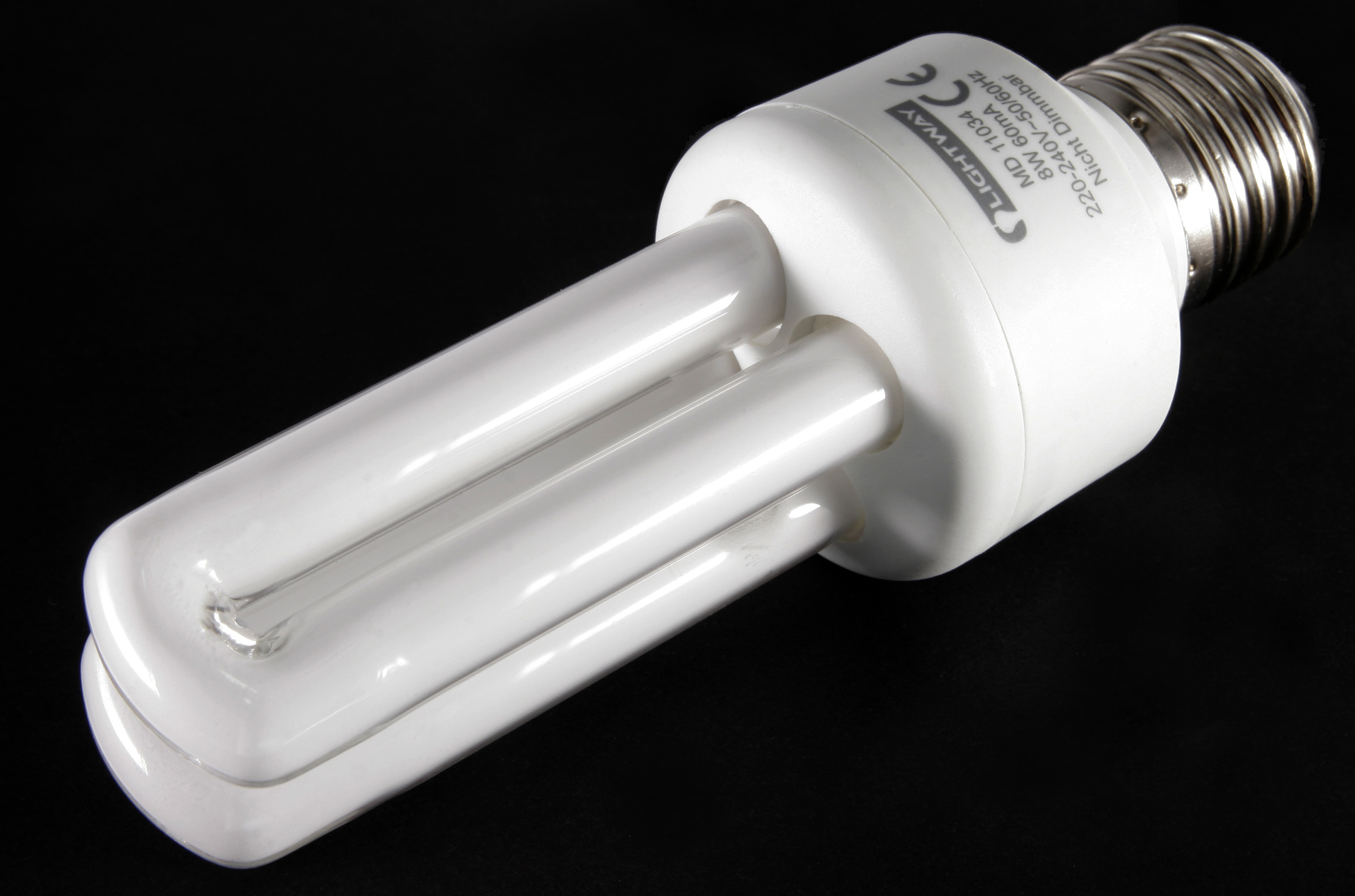 Modern fluorescent light bulb with E27 thread for 220..240 Volts AC with 8 Watts power